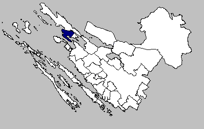 Self-made map of the Povljane municipality within the Zadar County.